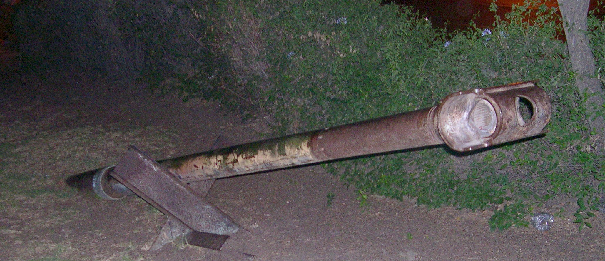 A tank canon left at a building yard in Jerusalem as a toy. Shderot Eshcol Blv. 6, Jerusalem, Near Givat HaTachmosht.